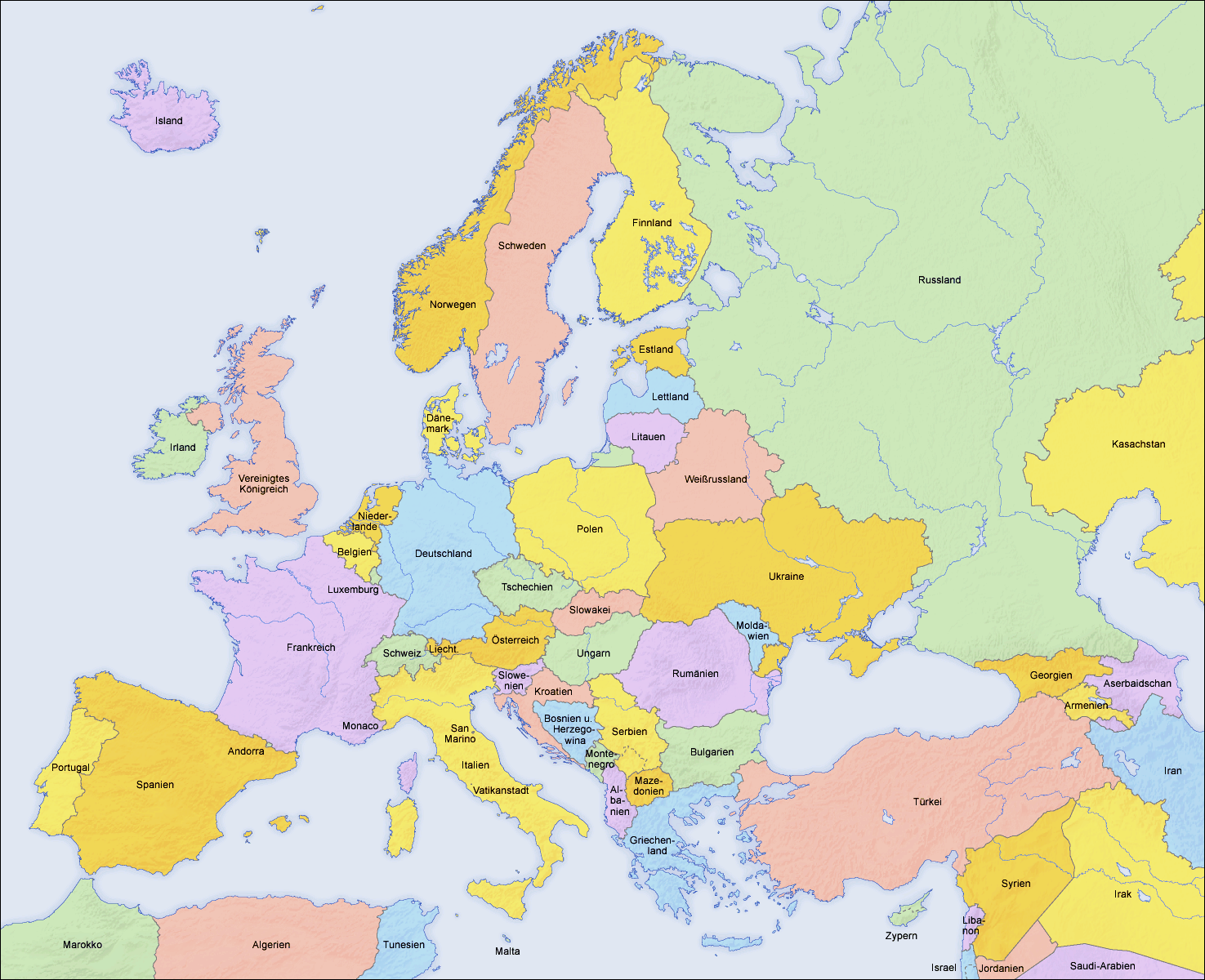 Map of countries in Europe and the surrounding region